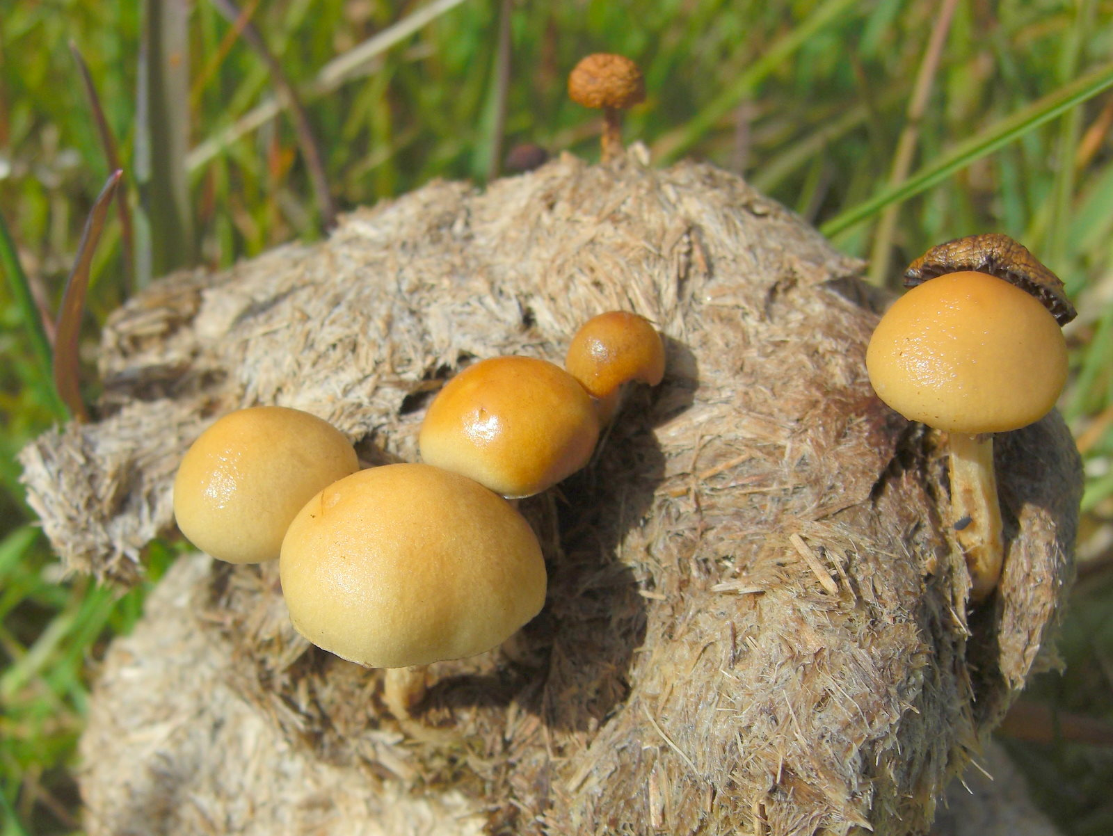 Fruit bodies of the agaric fungus Stropharia semiglobata (Batsch) Quél., growing on llama dung. Found in southern Tierra del Fuego, Tierra del Fuego, Argentina.